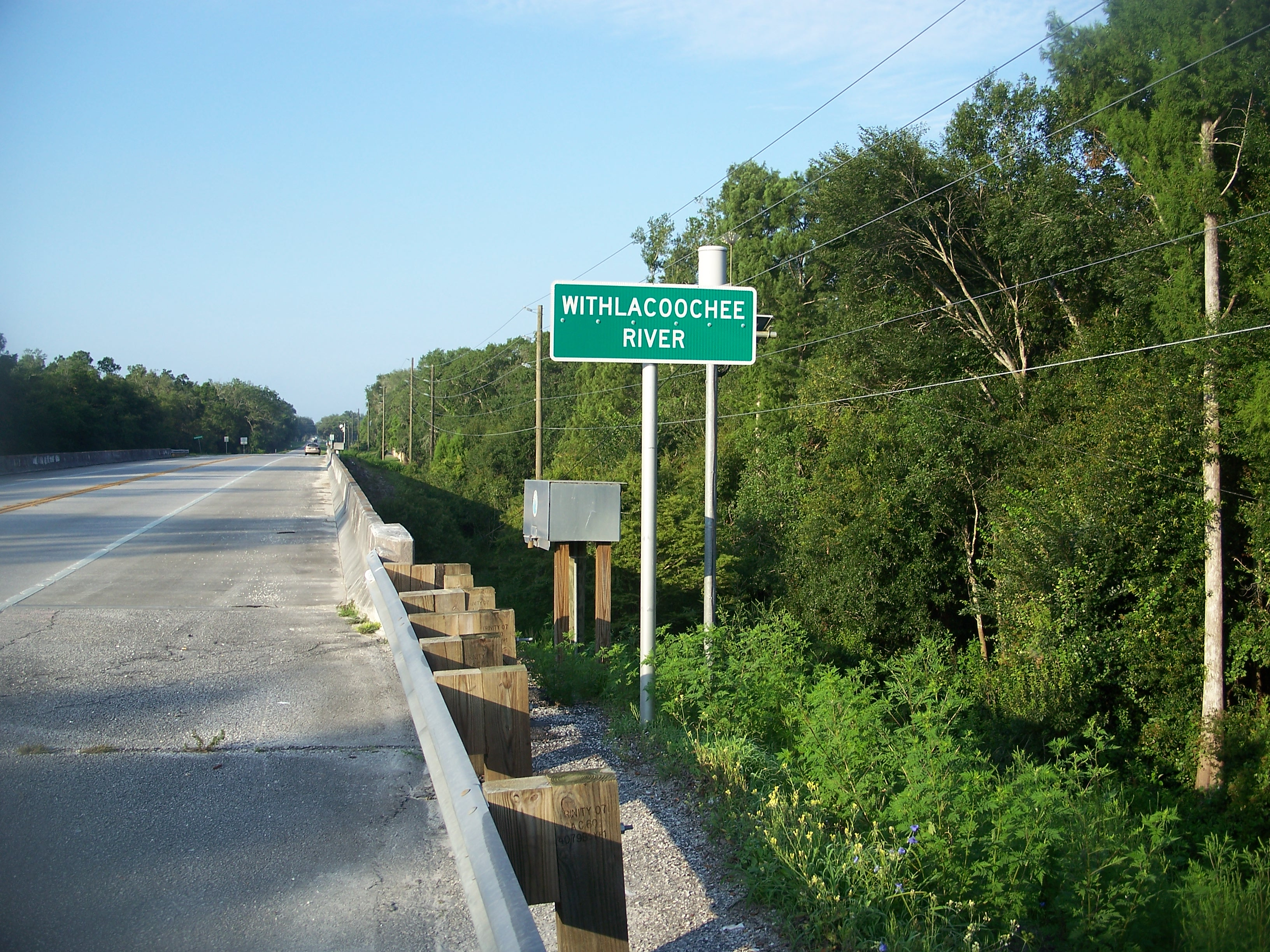 Withlacoochee River (Florida): US 301 bridge over the river, in Hernando County, just north of the Pasco County border, looking south from the north end of the bridge